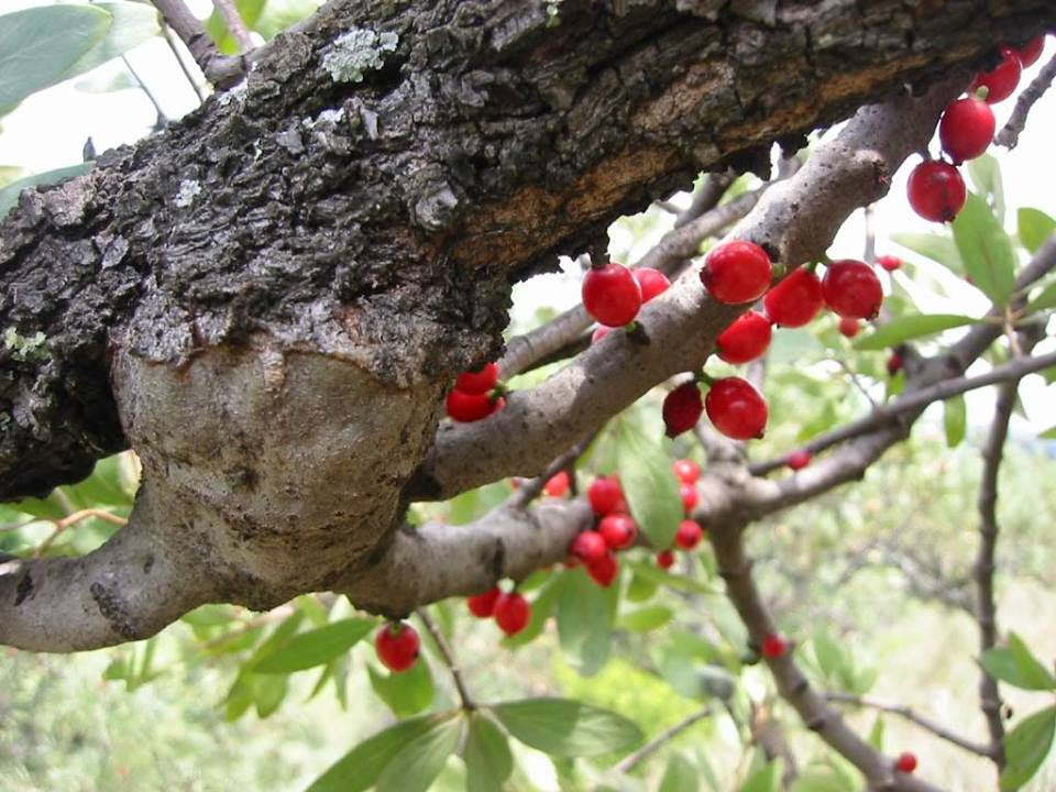 Tapinanthus oleifolius (J.C.Wendl.) Danser - Pretoria, South Africa